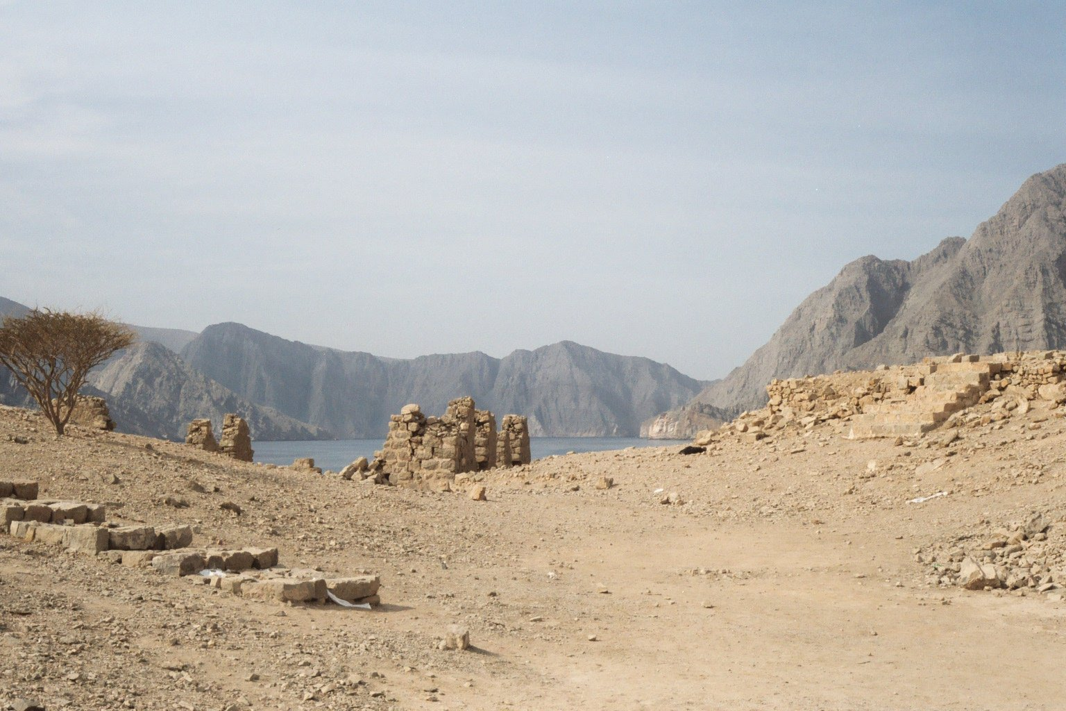 Telegraph Island in a fjord at Musandam Peninsula, Oman. This island, having a diameter of about 150 meters, was home to several british when the telegraph line to India was built. Not all of its inhabitants could cope with the isolation. The phrase "going round the bend" has its origin from this island.